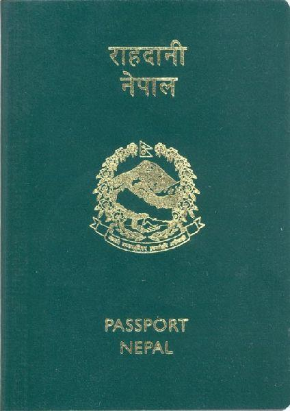 front cover of new nepalese passport